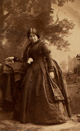 Portrait of Leonora Wigan (Mrs Alfred Wigan, nee Pincott) (1805–1884), British actor.